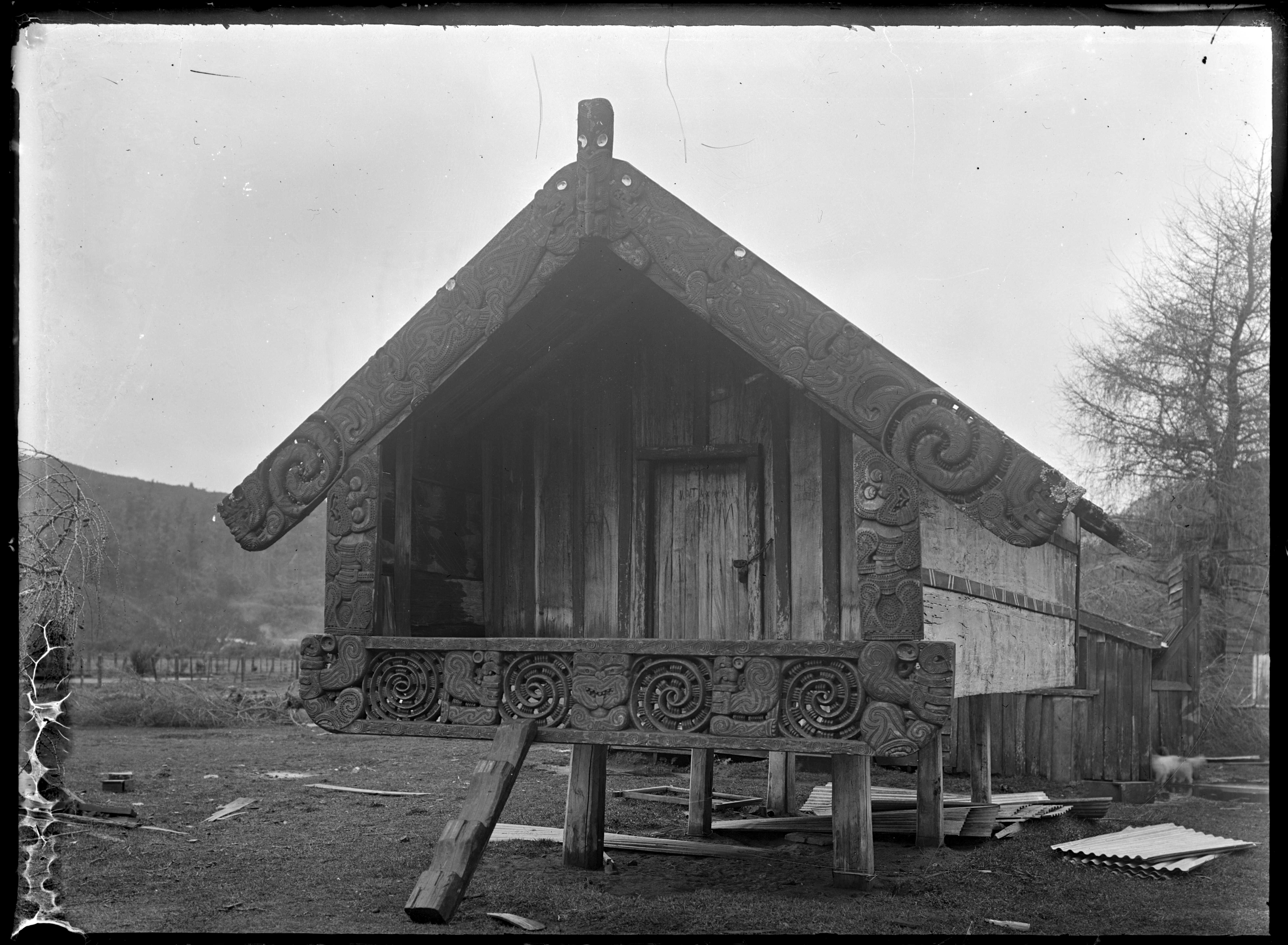 Carved pataka (storehouse) at Te Whaiti. There are sheets of corrugated iron on the ground beside the pataka. Photograph taken by Albert Percy Godber in October 1930.